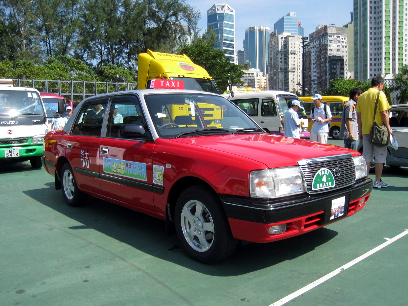 HK Toyota Comfort Four Seats Taxi 豐田汽車皇冠車行四座位的士